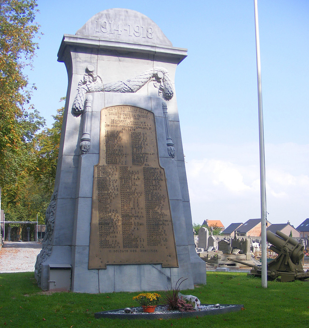 Memorial for the 170 casualties of the Battle of Rhées (Herstal 5/6 aug.1914). Colonel Dusart is buried here along with his men of the Eleventh Line Regiment.